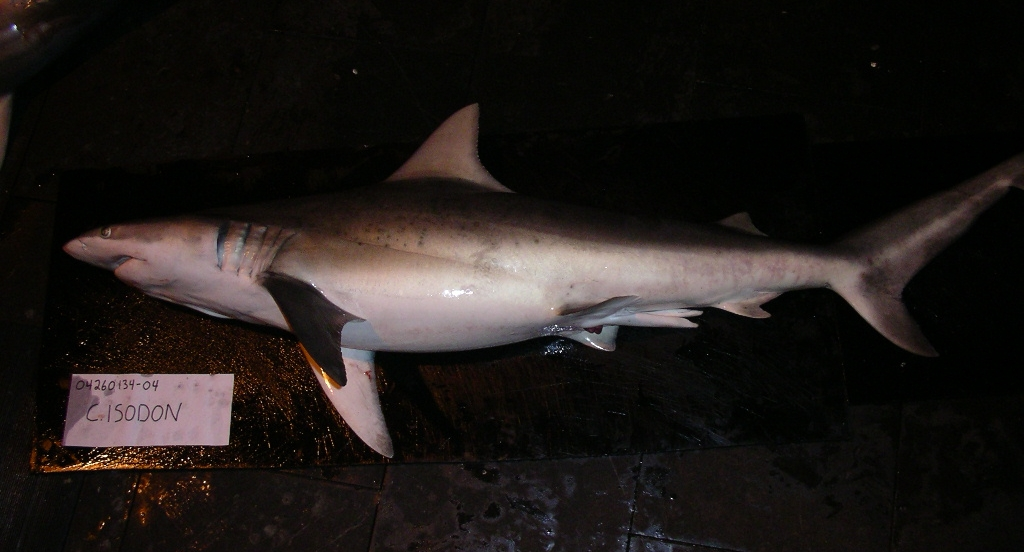 Male finetooth shark (Carcharhinus isodon) from the Gulf of Mexico